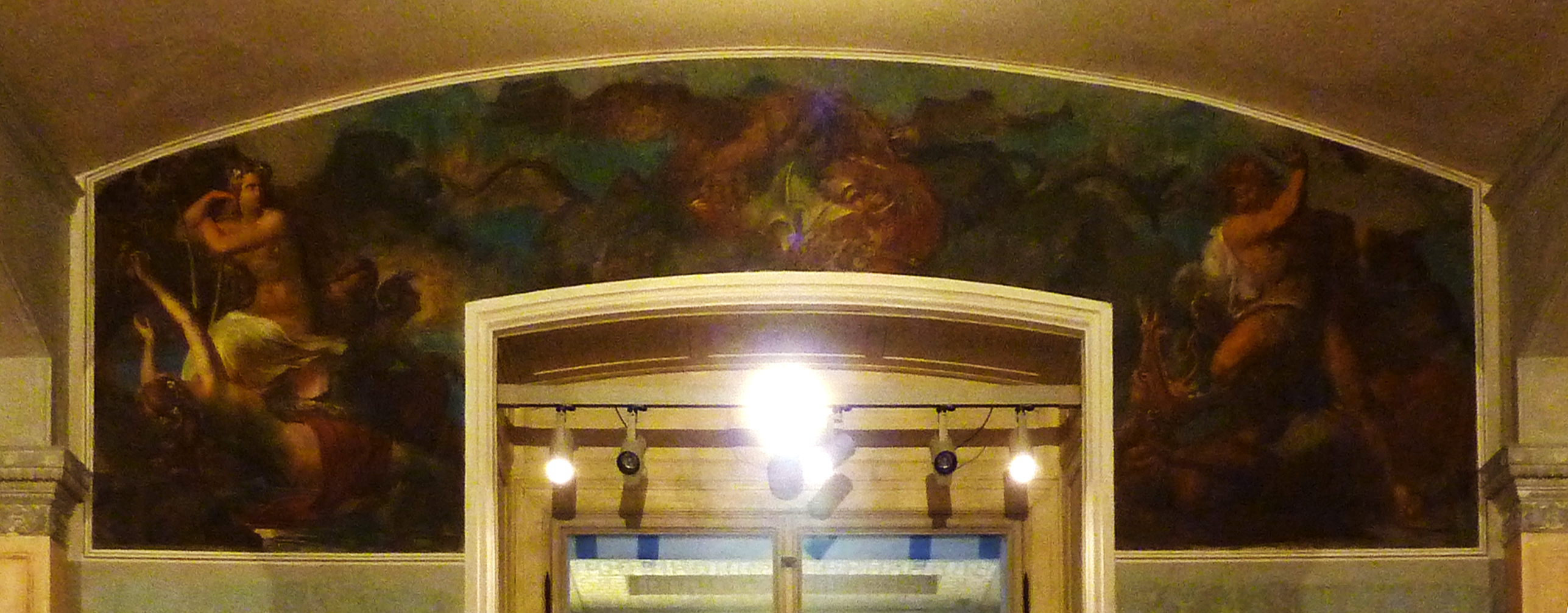 Fresco by Gustav Heidenreich illustrating Norse mythology in the "Fatherland Hall" of the New Museum, Berlin. On the left, four water nixes loll at a lakeshore. The reclining nix in the foreground is picking branches from hanging leafy boughs. Beside her, a second nix is propped on her harp. The two nixes in the background gaze pensively across the lake. The central field shows a dragon in the shape of a griffon, with an eagle's head, eagle wings, and a lion's body. Hissing and with wings spread, he guards over a treasure comprising a helmet, a shield, a sword, a crown, rings, and coins. On the right side, two giants combat a dragon. They are trying to throw boulders into its open maw.